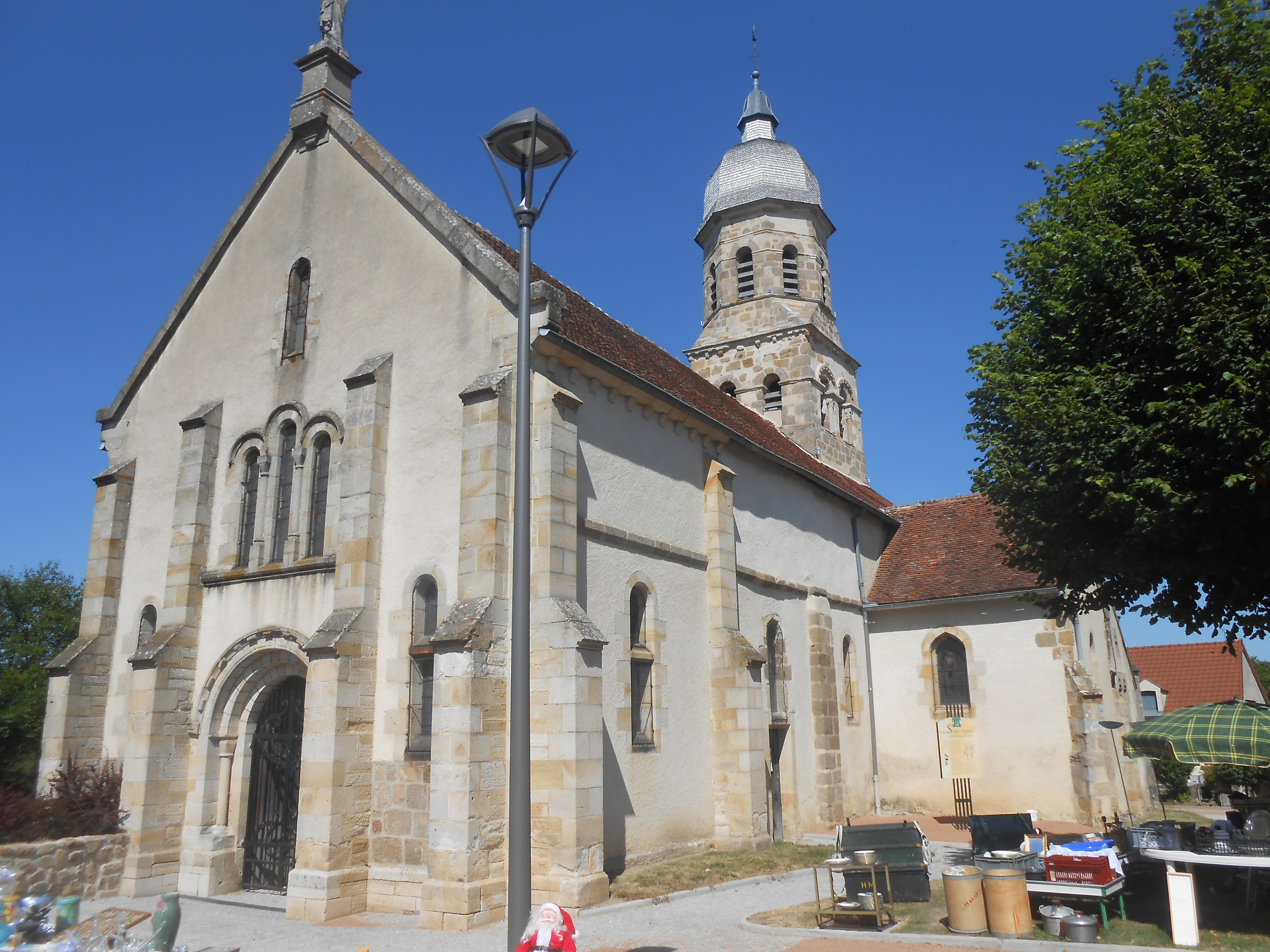 Beaune d'Allier church. Eglise de Beaune d'Allier.